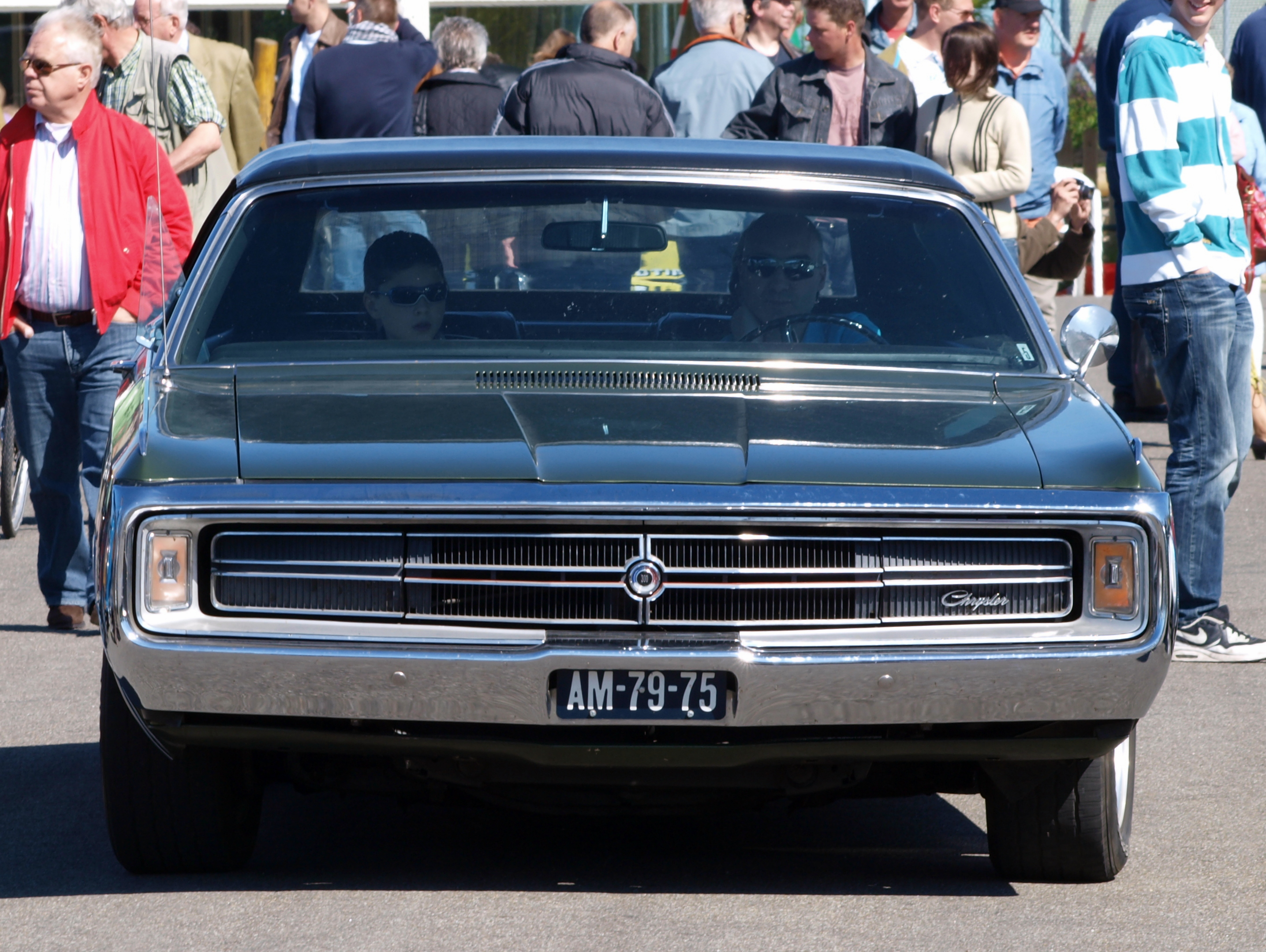 Photographed at Valkenburg, The Netherlands